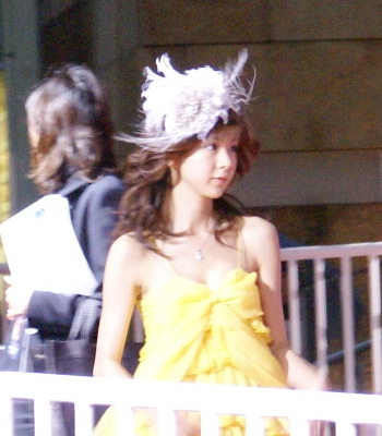 Aki Hoshino is a Japanese gravure idol.